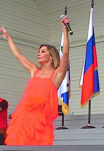 Russian pop singer Tatiana Bulanova